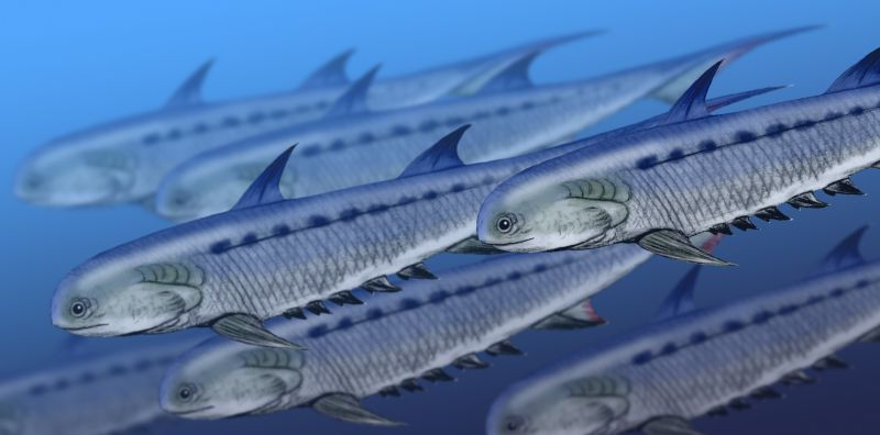 Climatius reticulatus, an acanthodian fish from the Early Devonian of the United Kingdom, digital